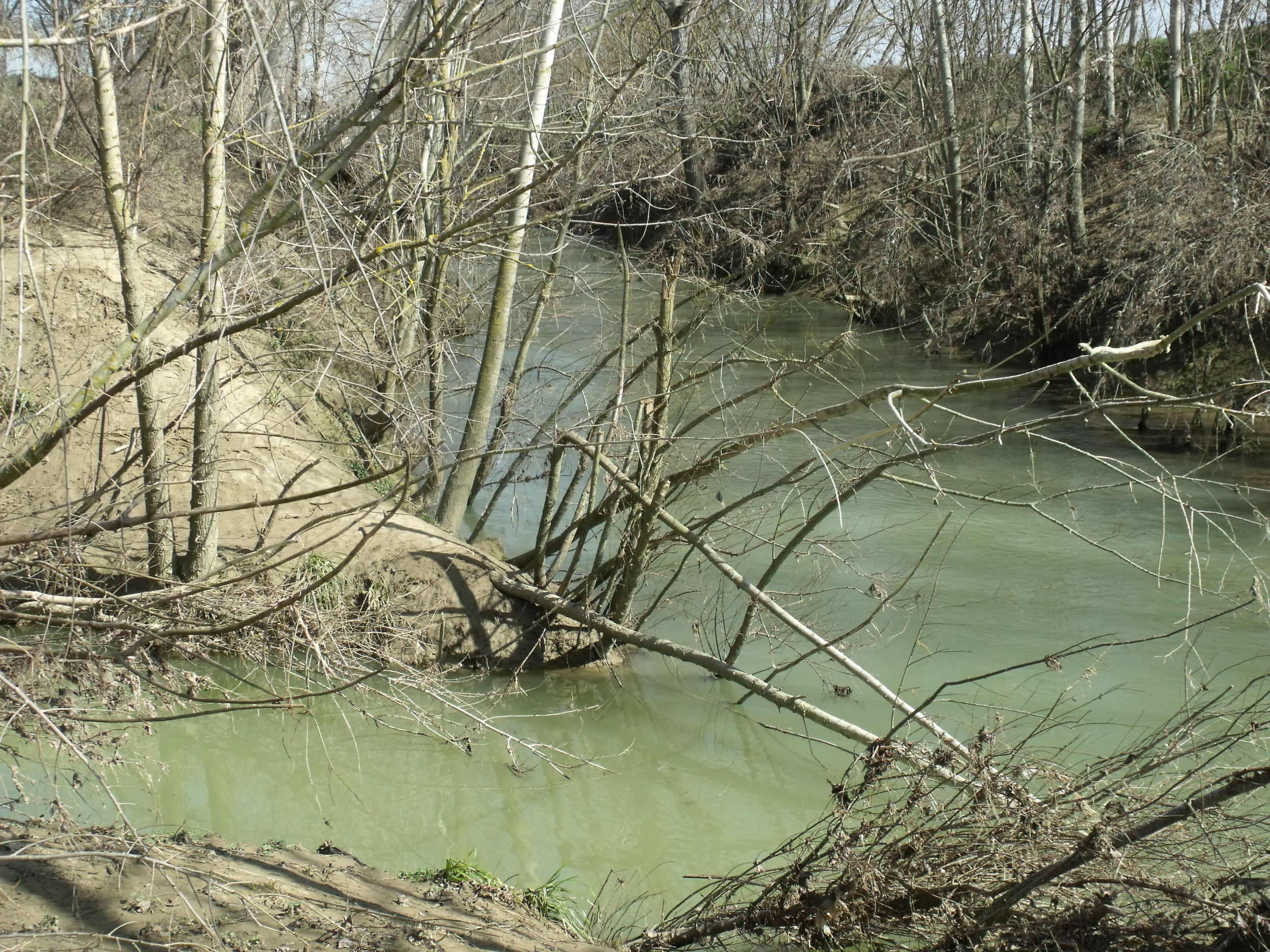 Confluence of the Sorra River into the Arbia River near Ponte d’Arbia, hamlet of Monteroni d’Arbia, Province of Siena, Tuscany, Italy